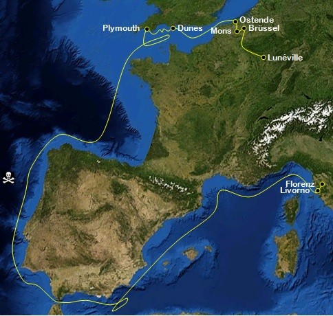 Odyssey of the lorrainian Swiss Guard from Lunéville to Florence 1737/38